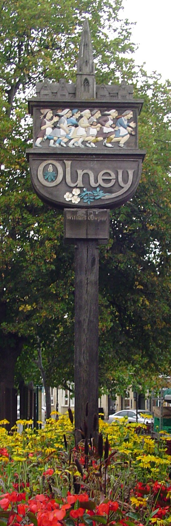 Signpost in Olney